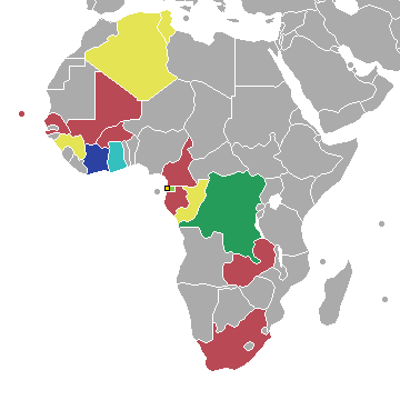 Results of the 2015 Africa Cup of Nations